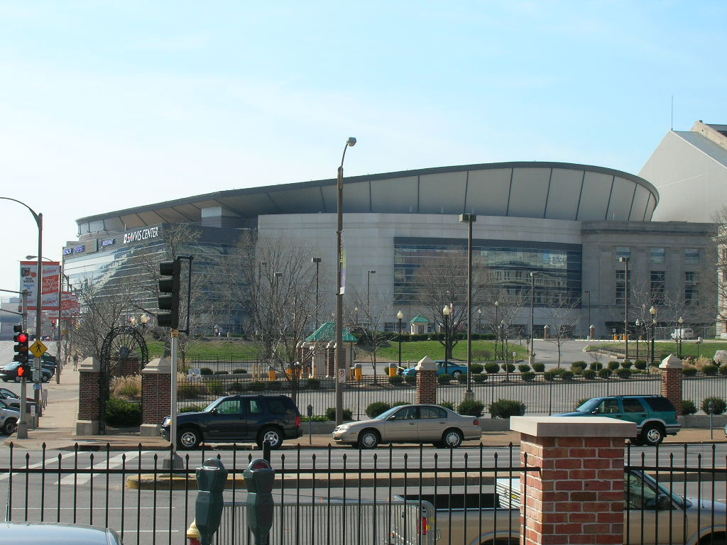 Scottrade Center, former Savvis Center, Kiel Center - home of the St. Louis Blues